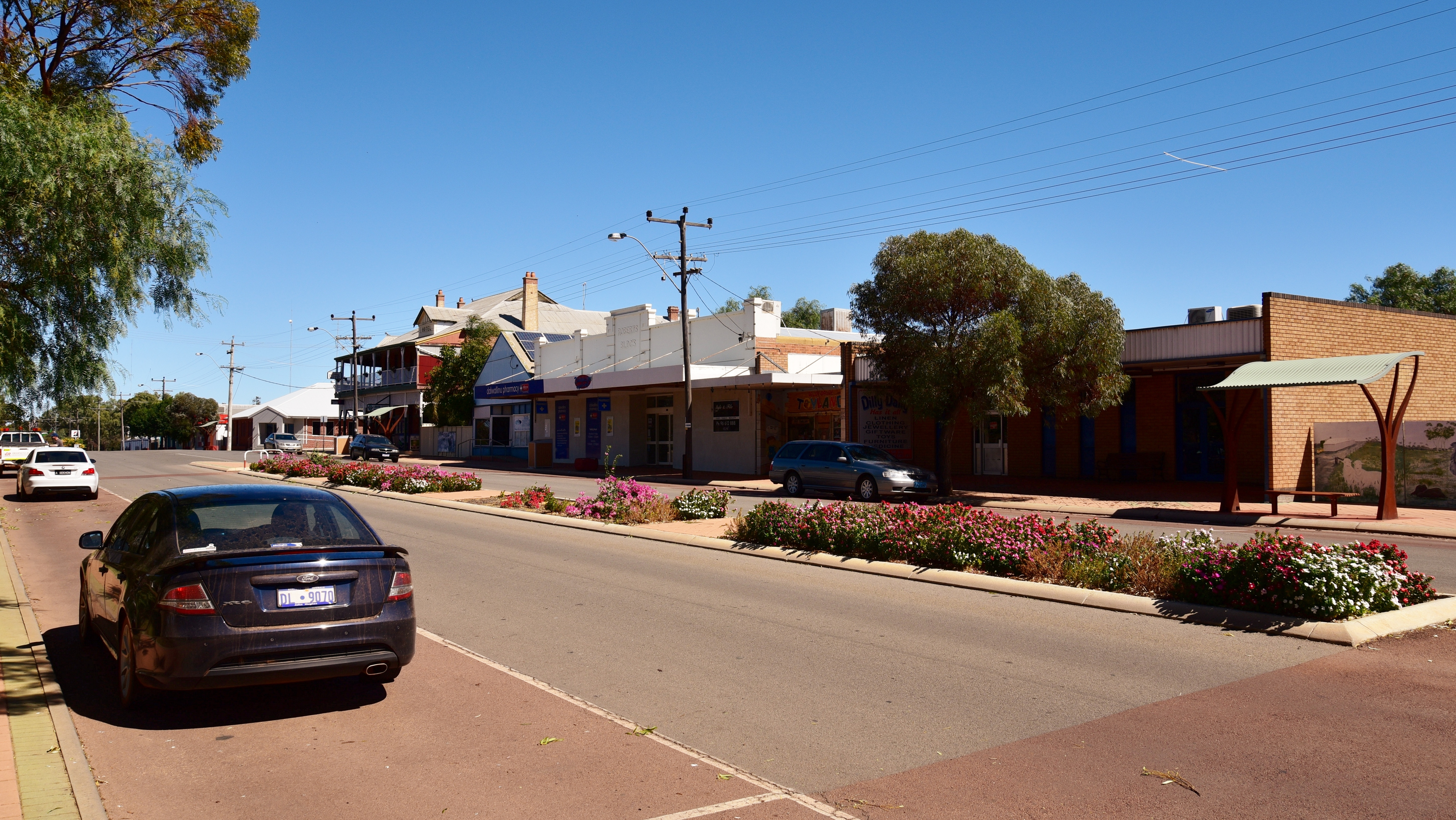 View of Johnston Street, Dalwallinu, Western Australia